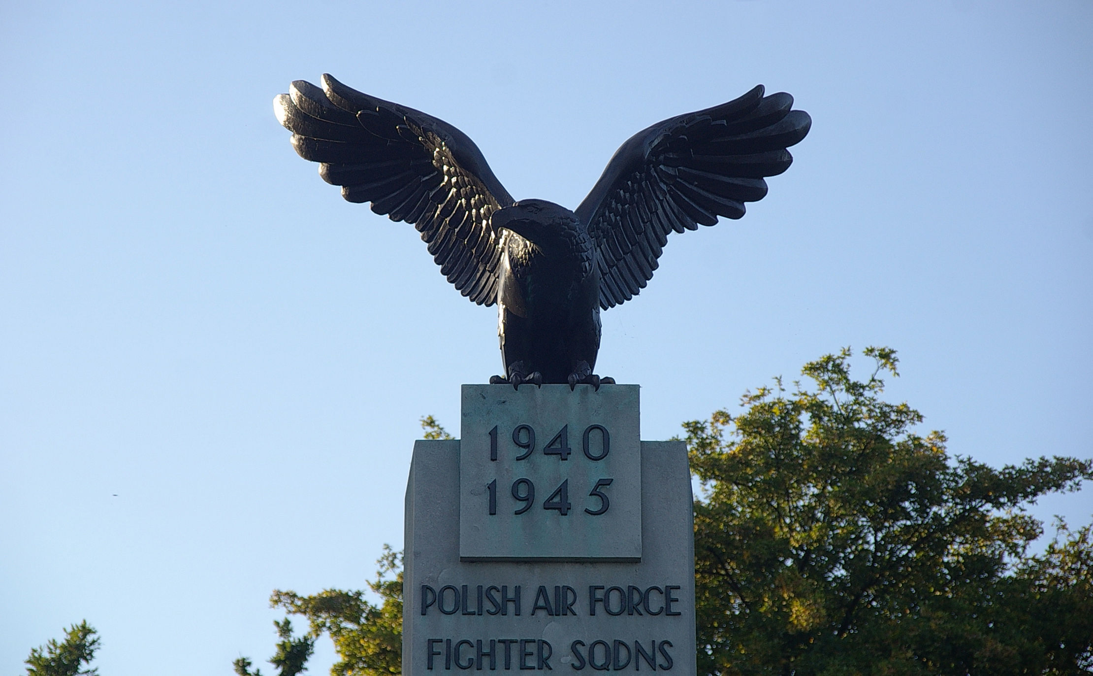 The Polish War Memorial near RAF Northolt, listing the names of all the Polish airmen who died during the Second World War, specifically those who died fighting in Britain.